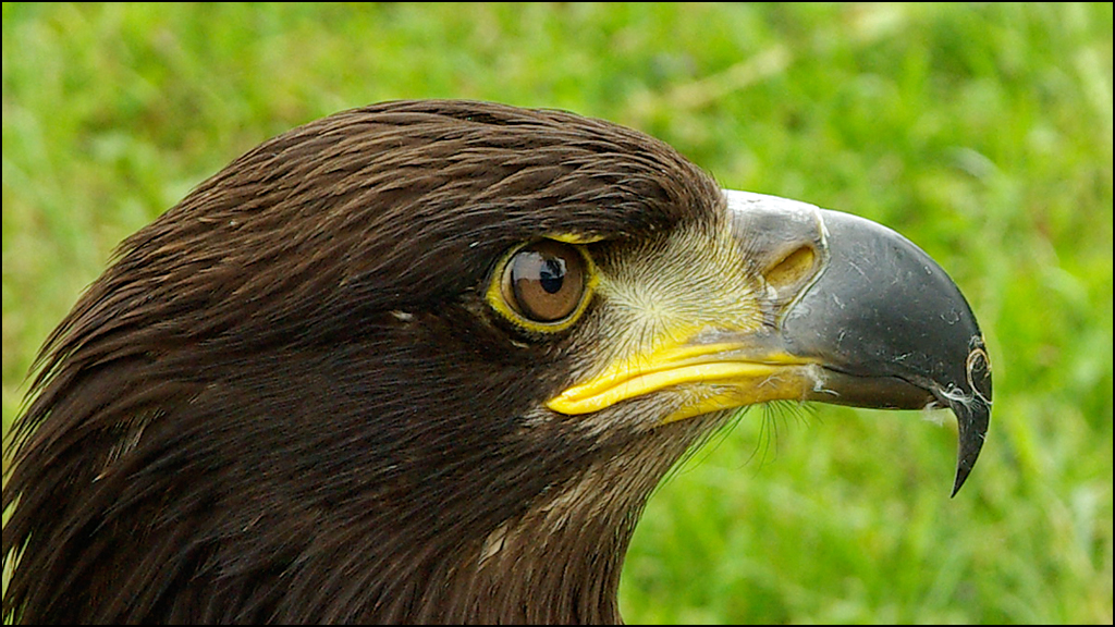 Sea eagle - Haliaeetus albicilla